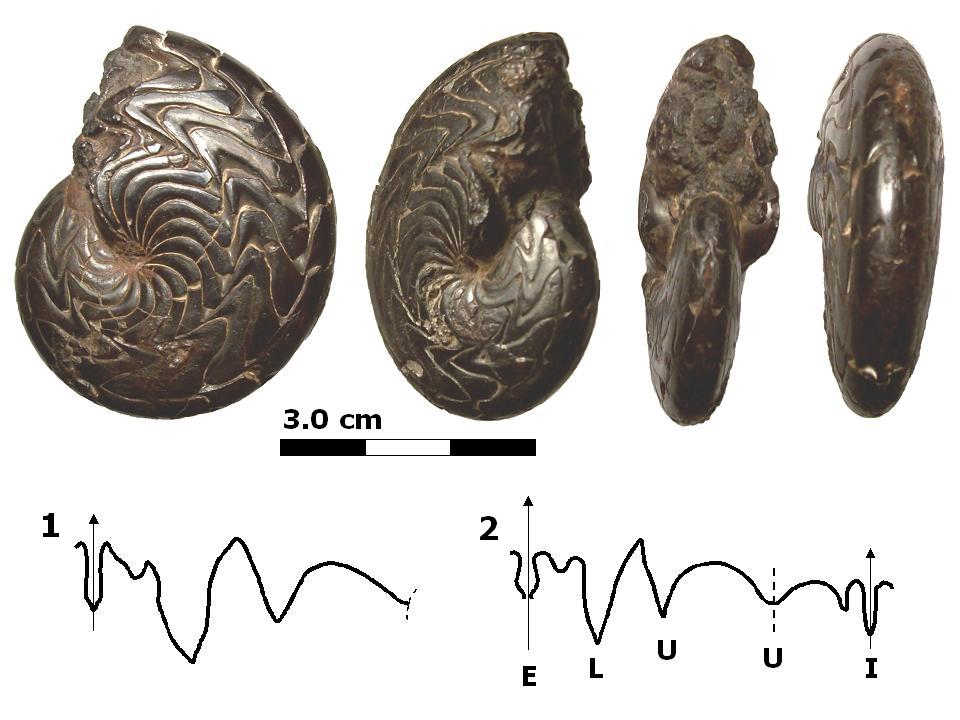 Discoclymenia cucullata (BUCH); goniatite belonging to the genus Discoclymenia HYATT. Pyritized specimen from Late Devonian of Morocco. The sutural pattern of the specimen (1) is reported (external part); the complete suture of the species is shown in (2). E = external lobe; L = lateral lobe; U = umbilical lobe; I = internal lobe.